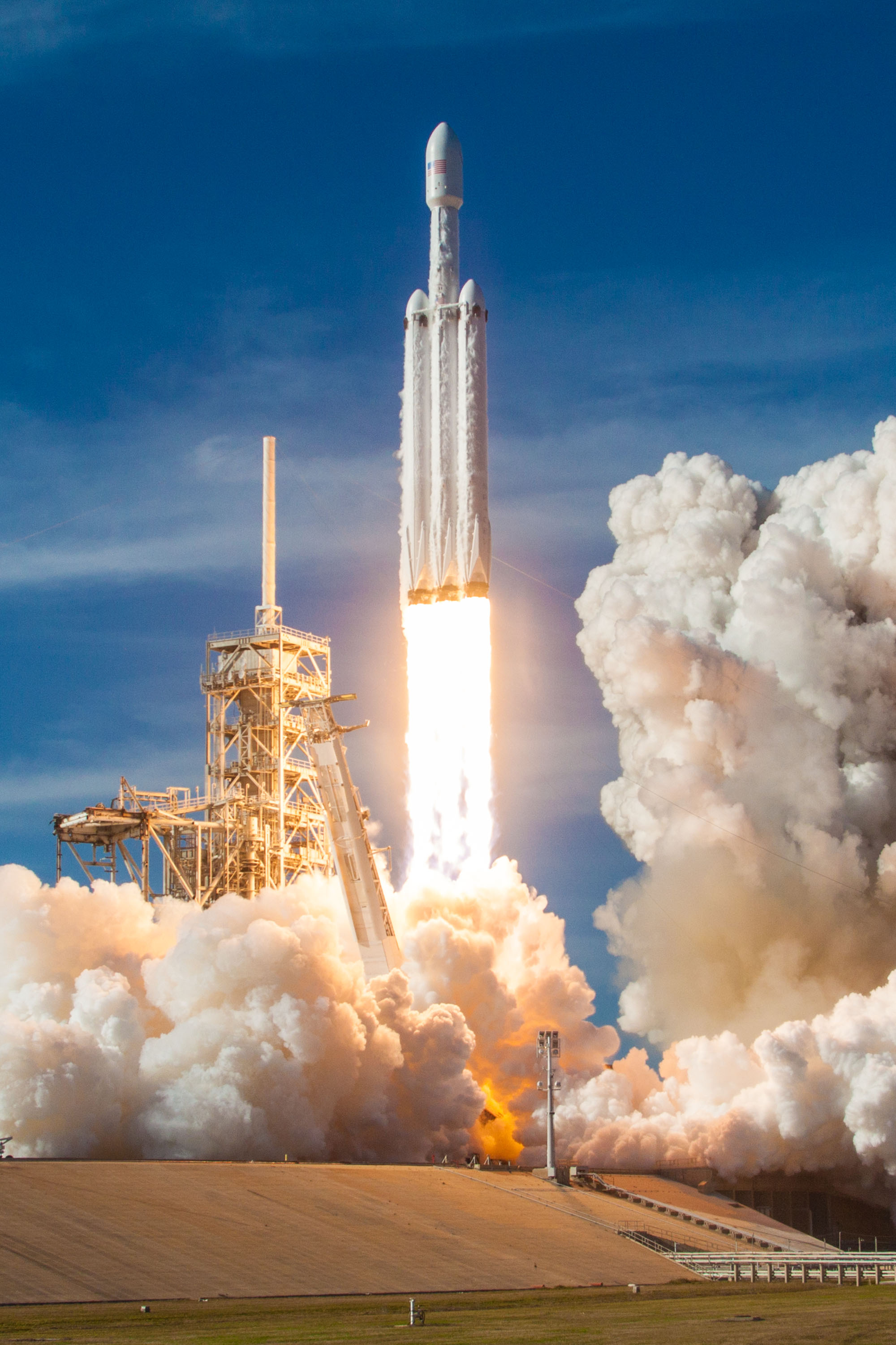 Falcon Heavy Demo Mission